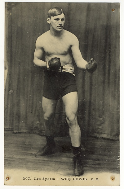 Welterweight boxing contender Willie Lewis in trunks in boxing pose circa 1910 during the period when he was fighting in France.